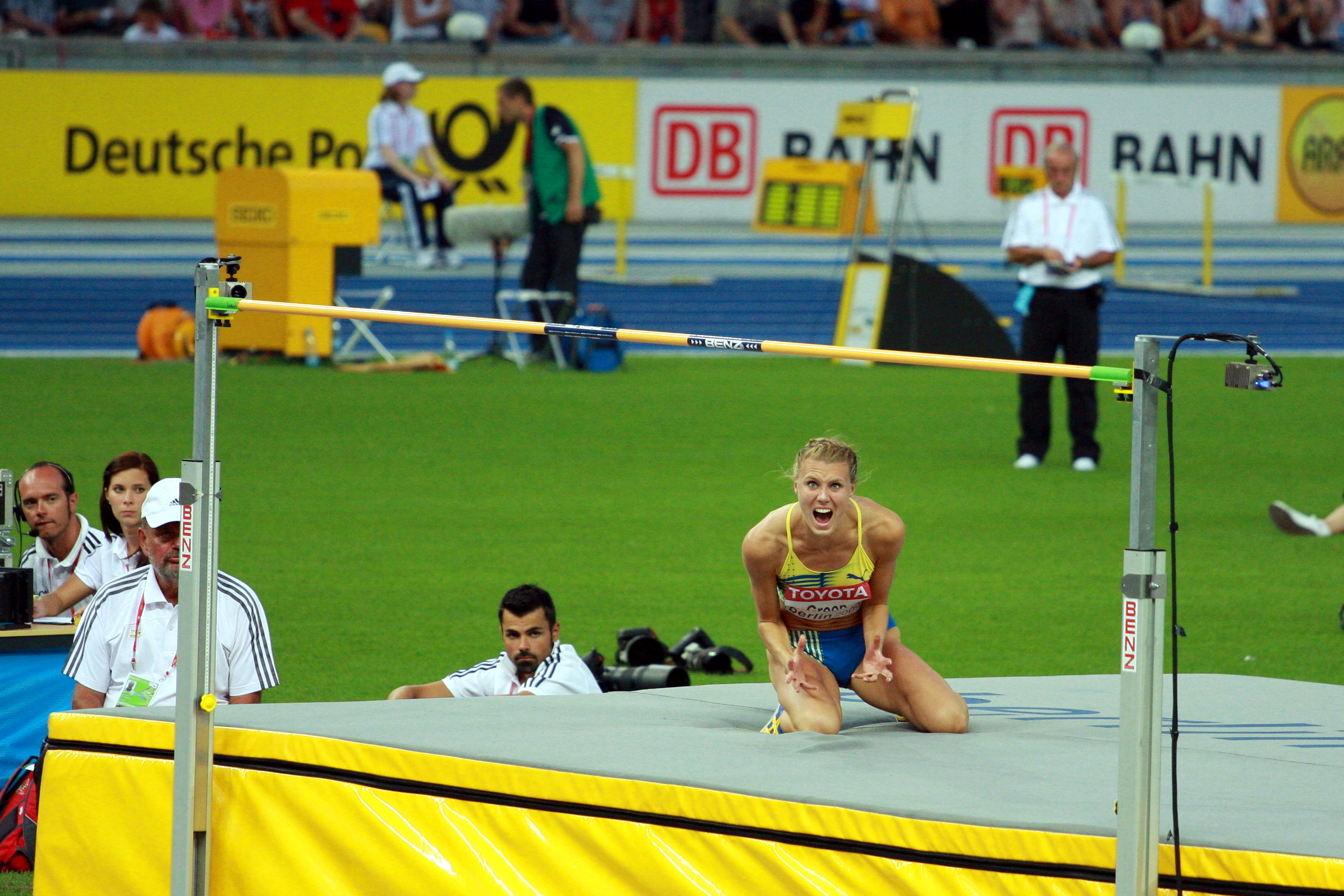 High Jump Final